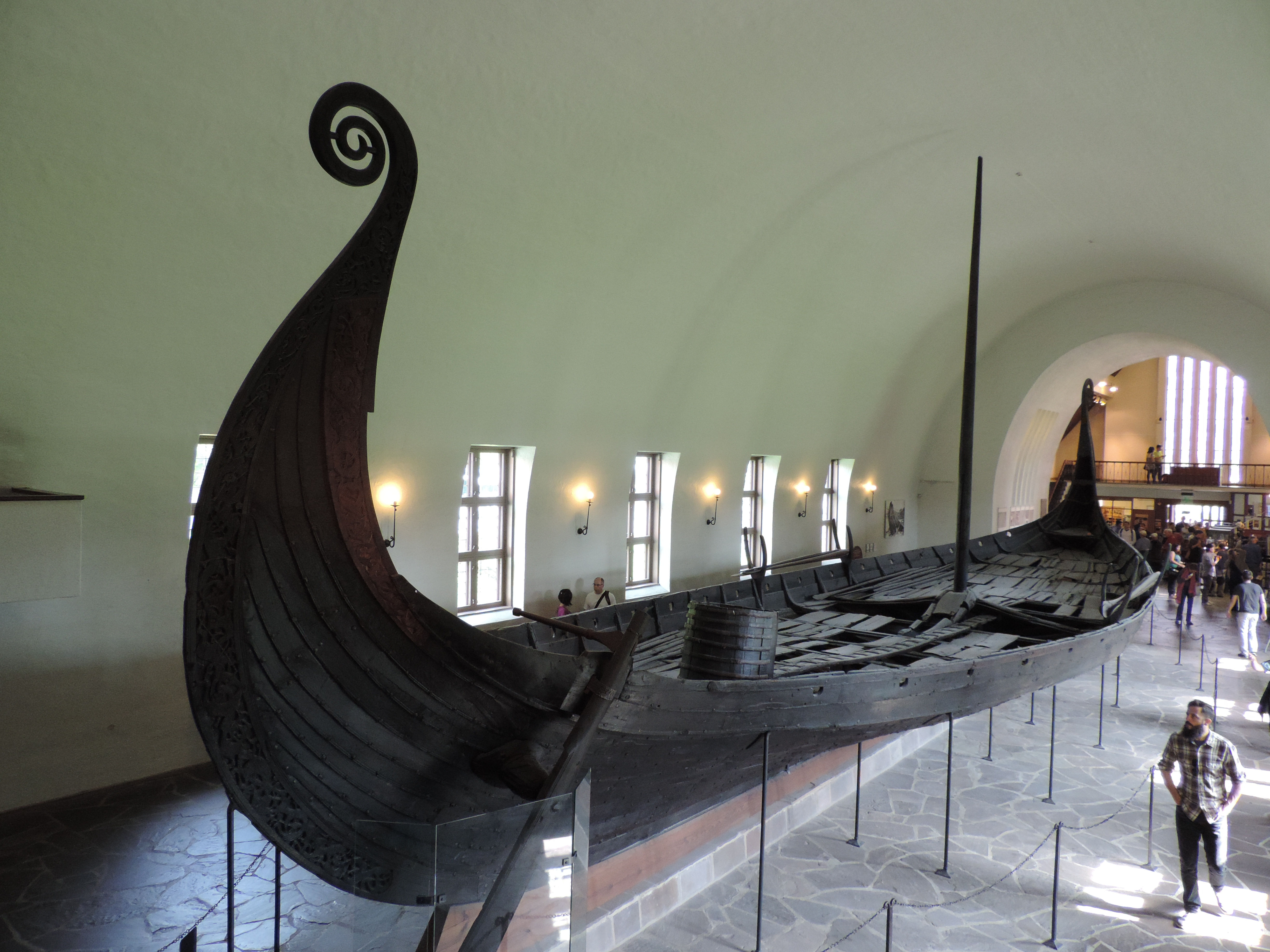 The Oseberg Ship in the Viking Ship Museum (Oslo)